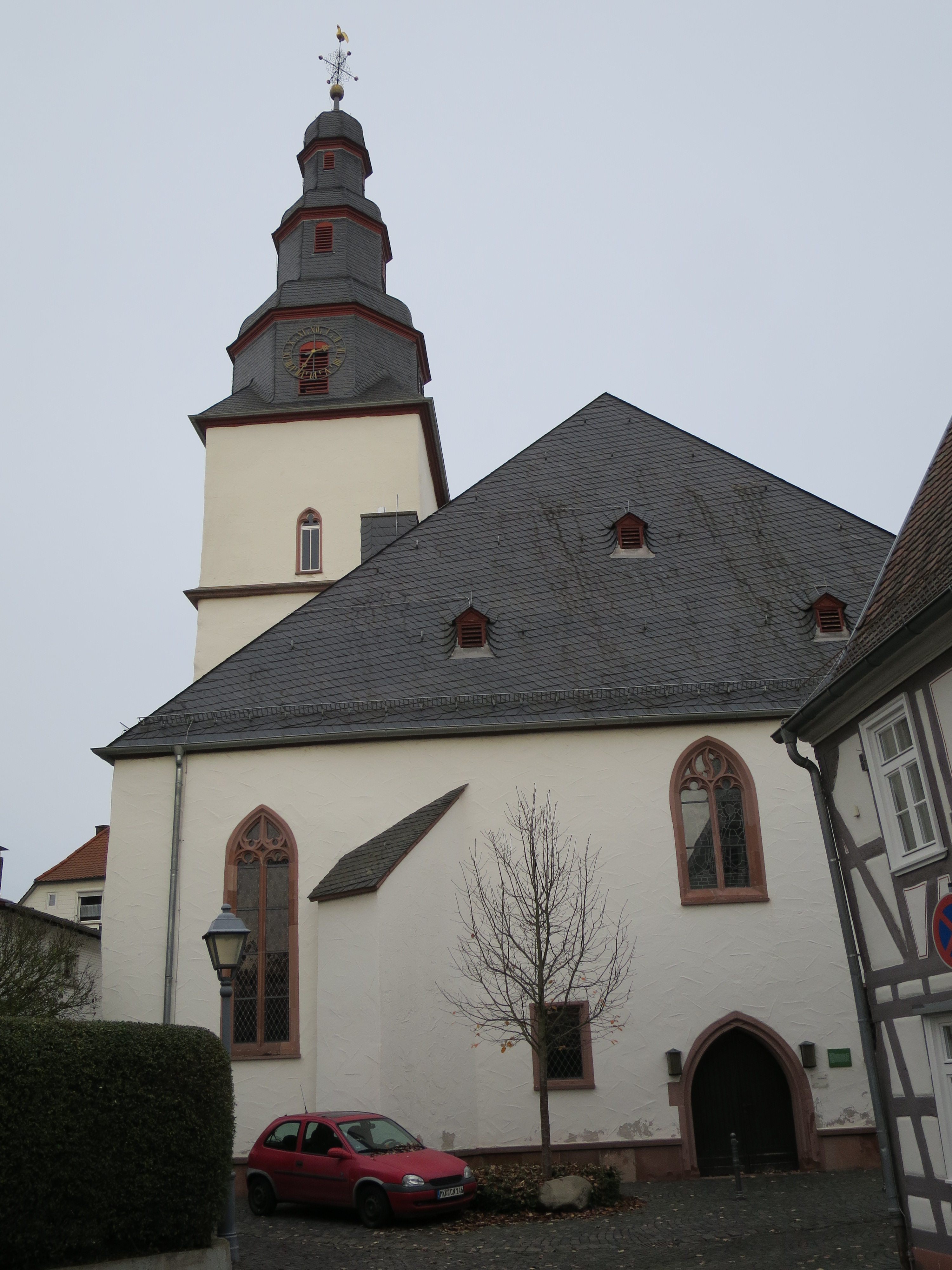 Stiftskirche Windecken western front